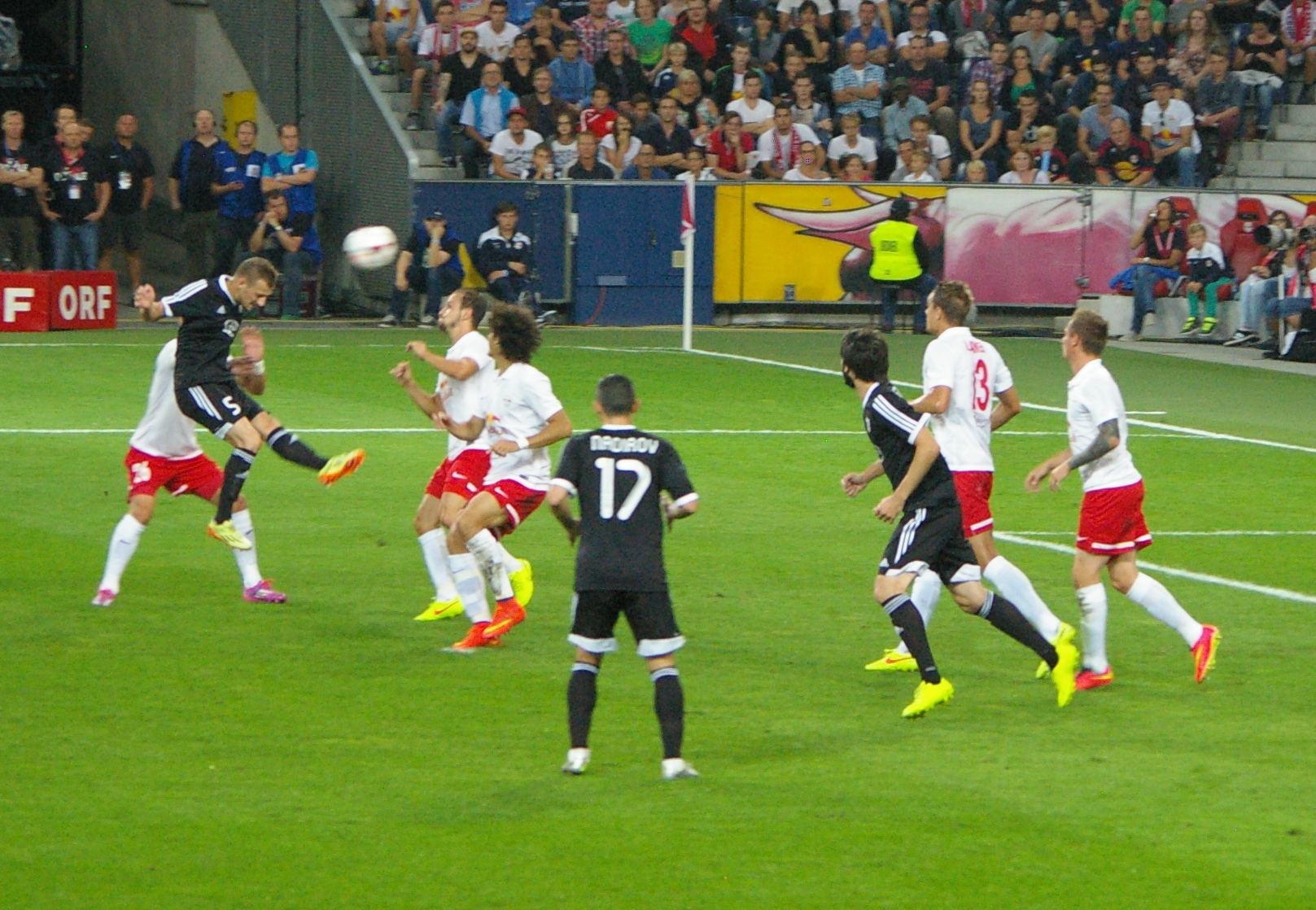 Championsleague Qualifier 3rd round